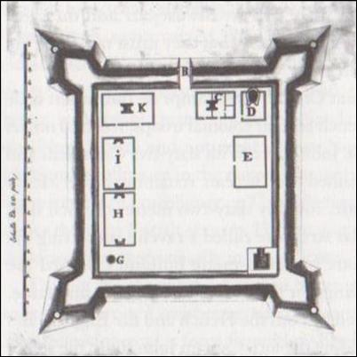 Fort Menagoueche located at Saint John, New Brunswick.